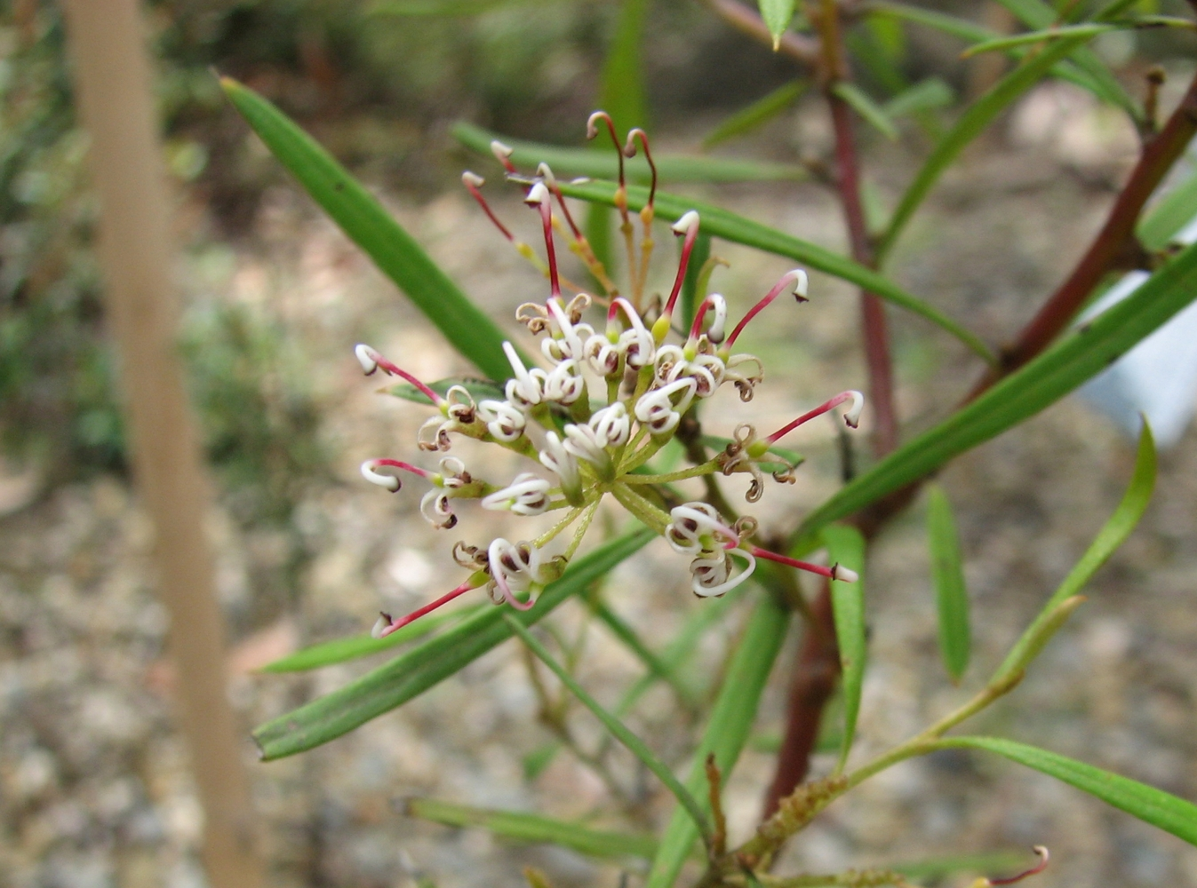 Grevillea diversifolia subsp. subtersericata (cultivated, grafted, labelled) Maranoa Gardens, Balwyn, Victoria, Australia